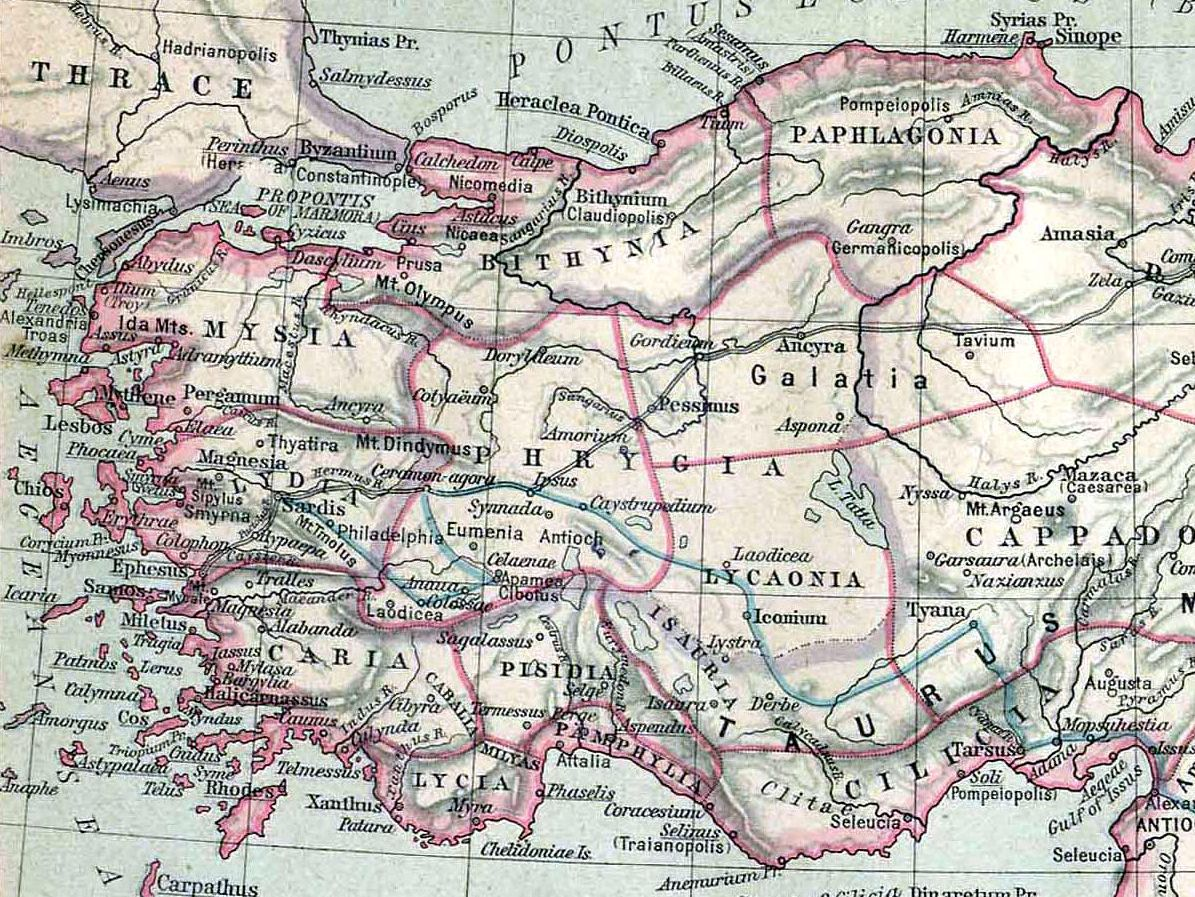 Map of Asia Minor. Historical Atlas